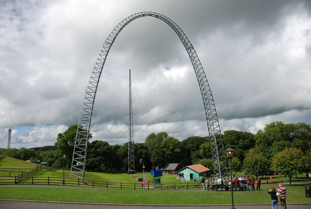 Oakwood Theme Park: Vertigo